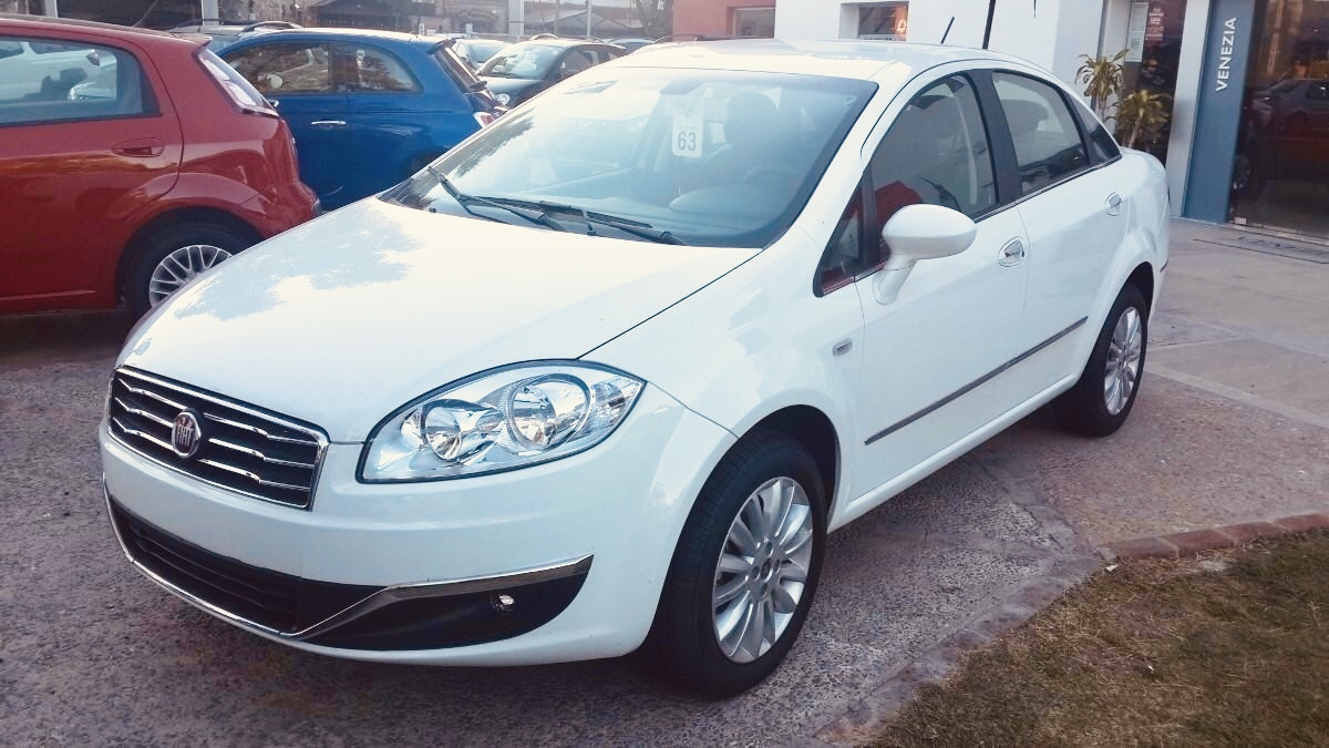 Fiat Linea Precision with 1.8 E-Torq flex engine and 5-speed Dualogic Automatic transmission (Brazilian MY 2017 spec)